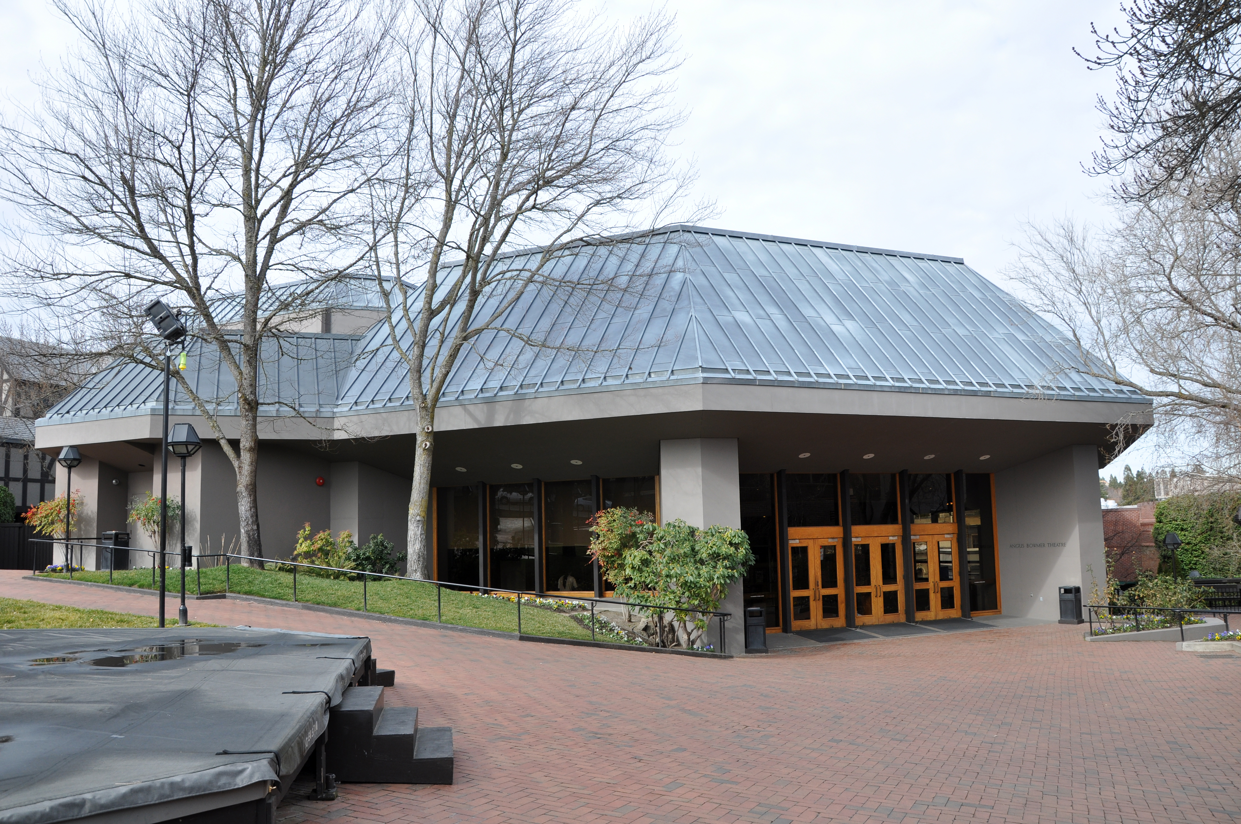 Angus Bowmer Theatre, part of the Oregon Shakespeare Festival complex in Ashland, in the U.S. state of Oregon